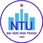 Logo of Nha Trang University